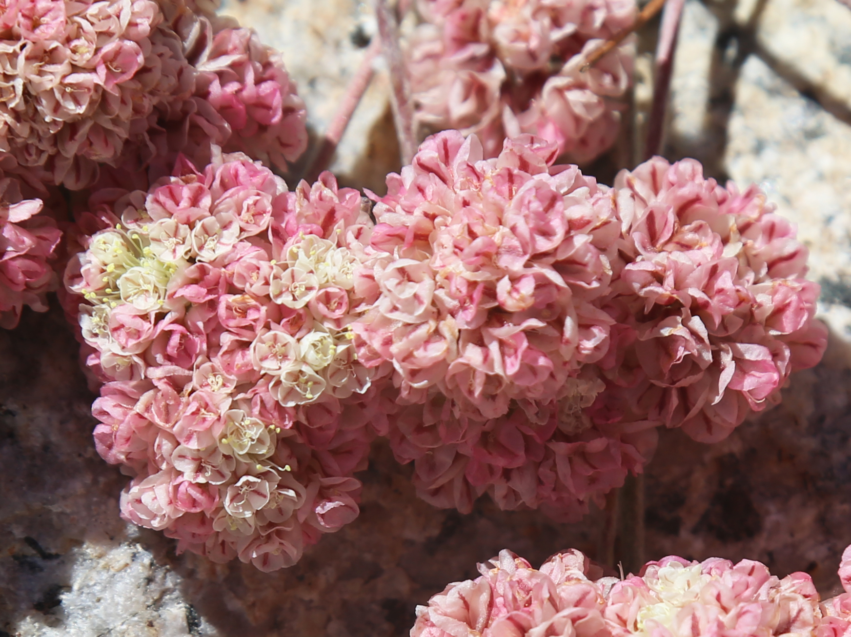 Prostrate buckwheat, or Lobb's buckwheat (Eriogonum lobbii) closeup of bright pink flower clusters. At 11,600 ft (3,500 m) along the trail to Mono Pass, John Muir Wilderness, Sierra Nevada USA.